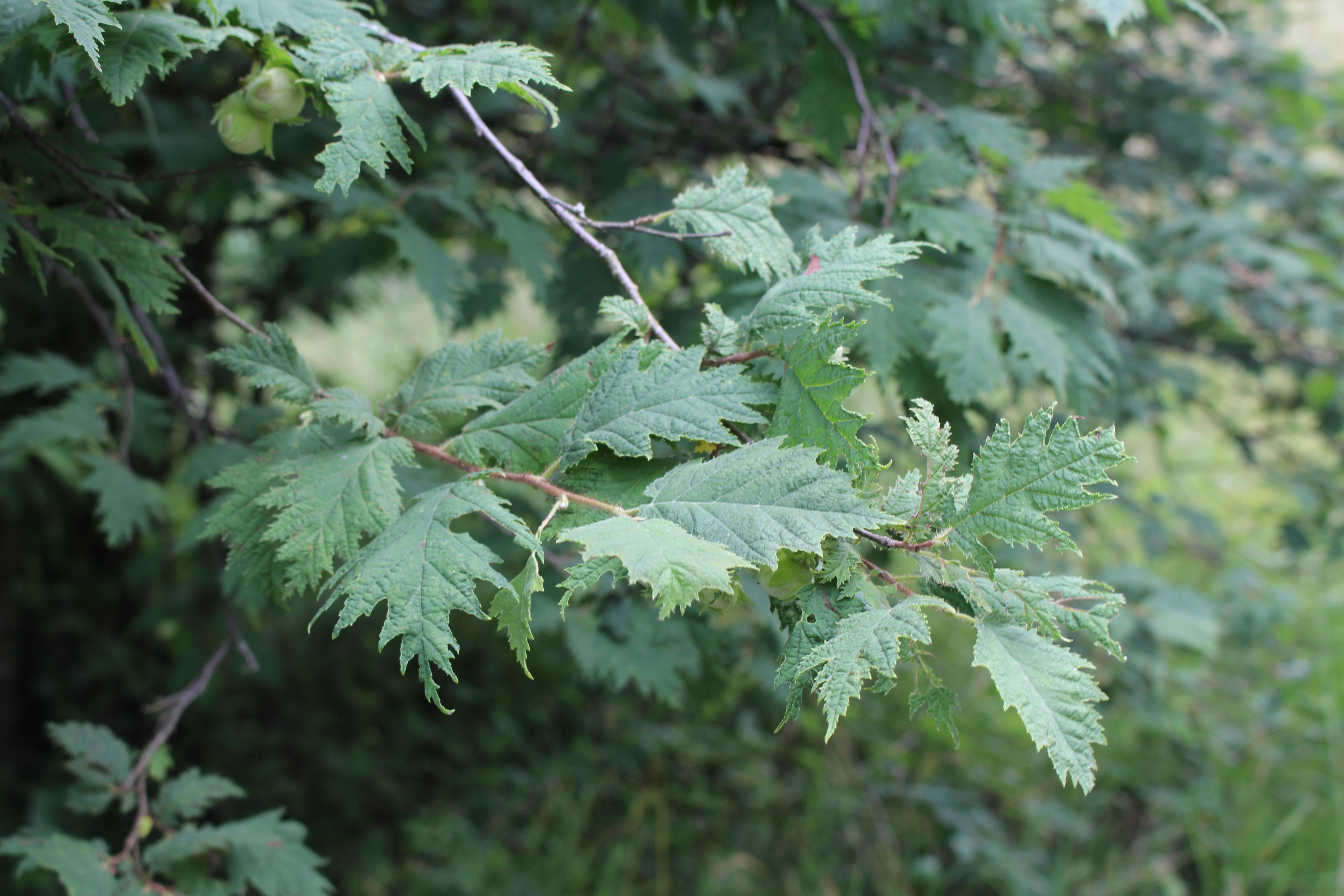 Corylus avellana 'heterophylla' in the botanical gardens in Marburg, Germany.